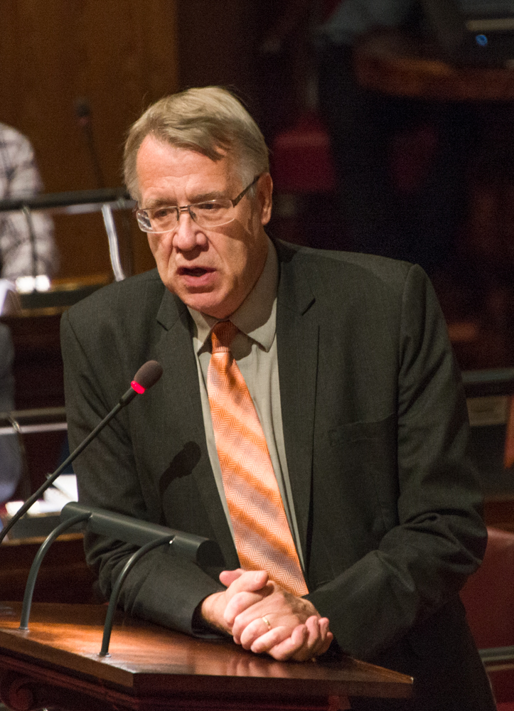 Stadsbyggnadsborgarrådet Jan Valeskog i en poltisk debatt i Stockholms kommunfullmäktige den 27 november 2017.